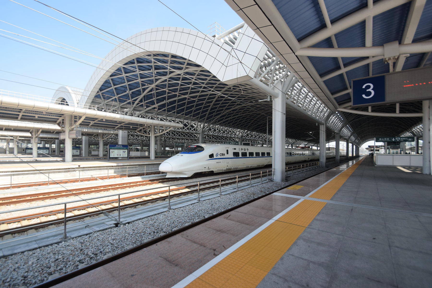 D3607 CRH2A EMU was passing through High-Speed Railway Platforms of Foshan Xi (West) Railway Station